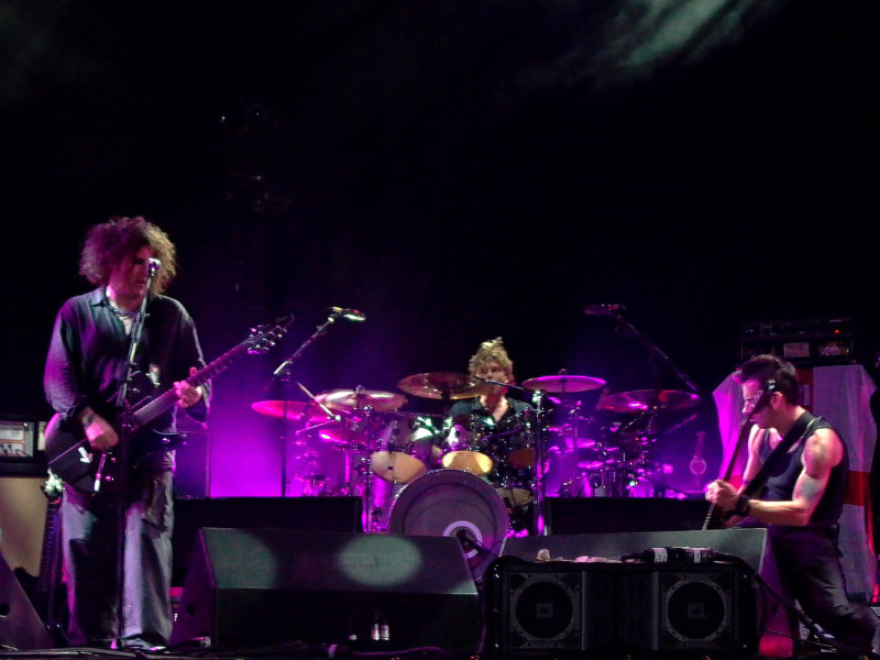 The Cure performing live in 2004